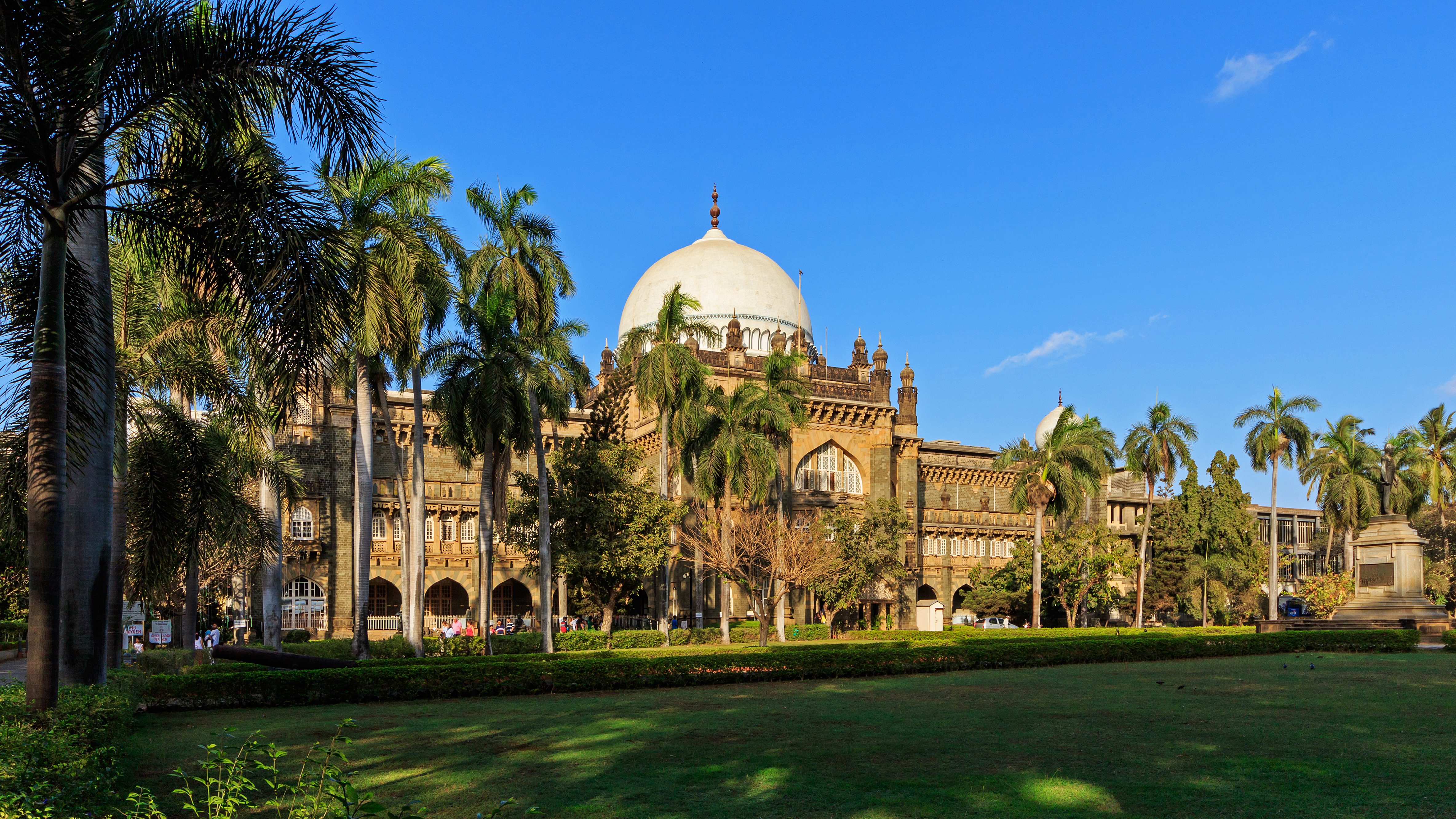 The Prince of Wales Museum building in Mumbai, India